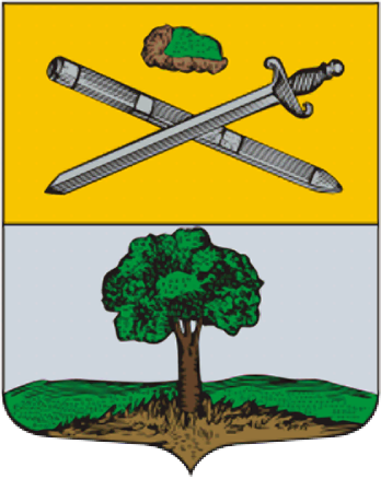 Pronsk (Ryazan oblast), coat of arms (1779)